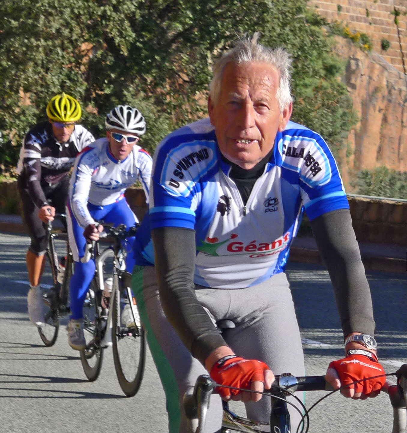 Jean Jourden in March 2013